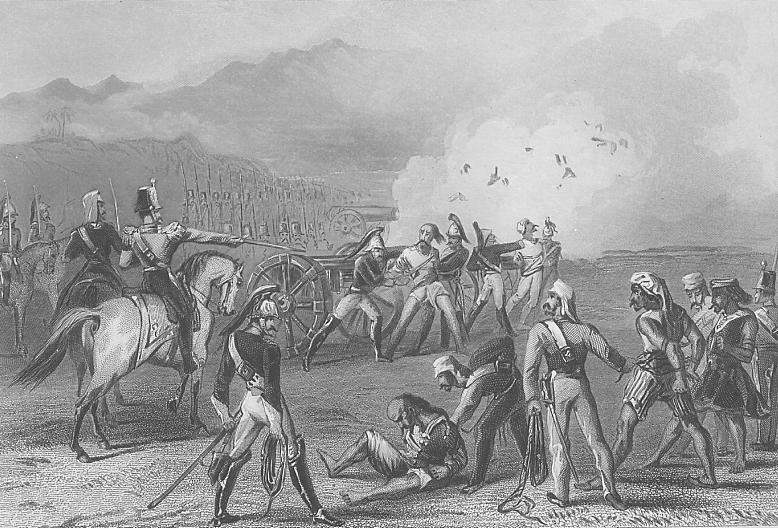 "Blowing Mutinous Sepoys From the Guns, September 8th, 1857," a steel engraving, London Printing and Publishing Co, 1858